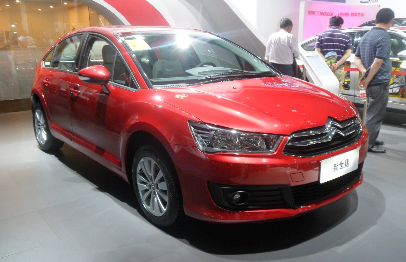 Citroën C-Quatre hatch facelift photographed at the 2012 Chongqing Auto Show, Chongqing, China.